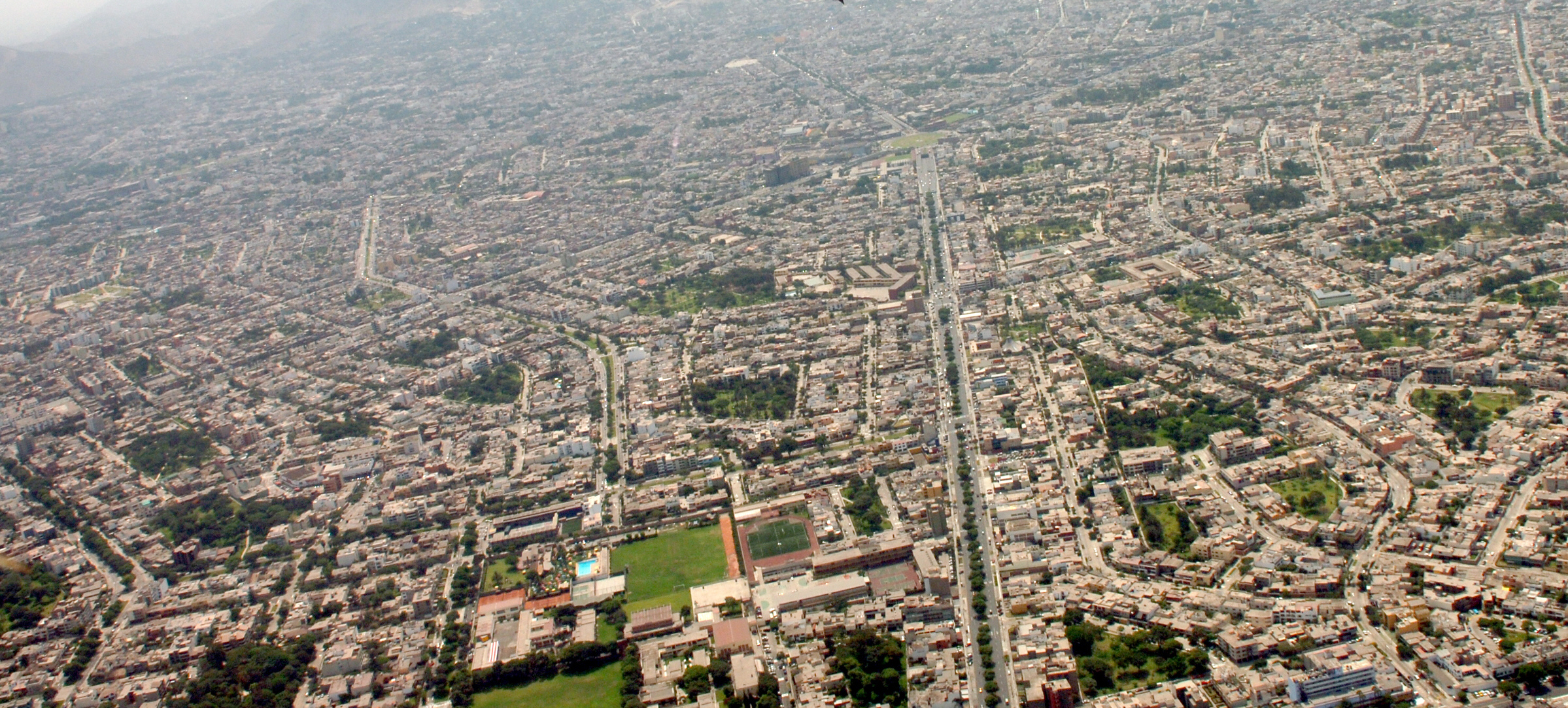 An F-16 Fighting Falcon flies over Lima, Peru, Feb. 15 to participate in a joint air show with the Peruvian air force (image without the jet).